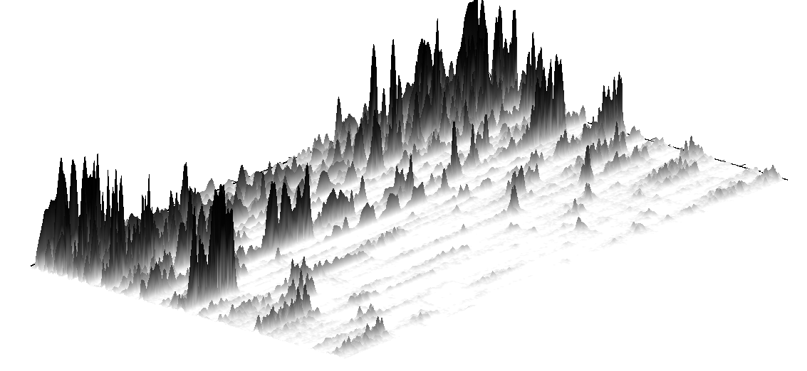 Three-dimensional spectrogram of a part from a music piece (created with the program Snd [2])